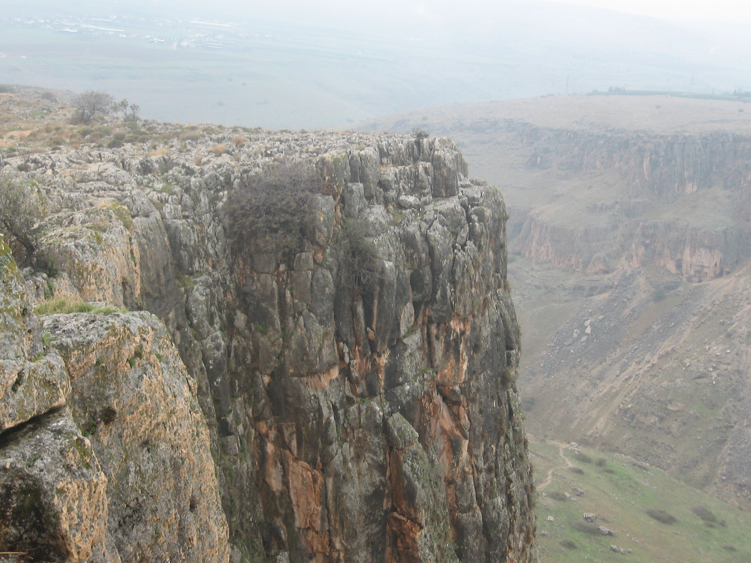 Geography of Israel